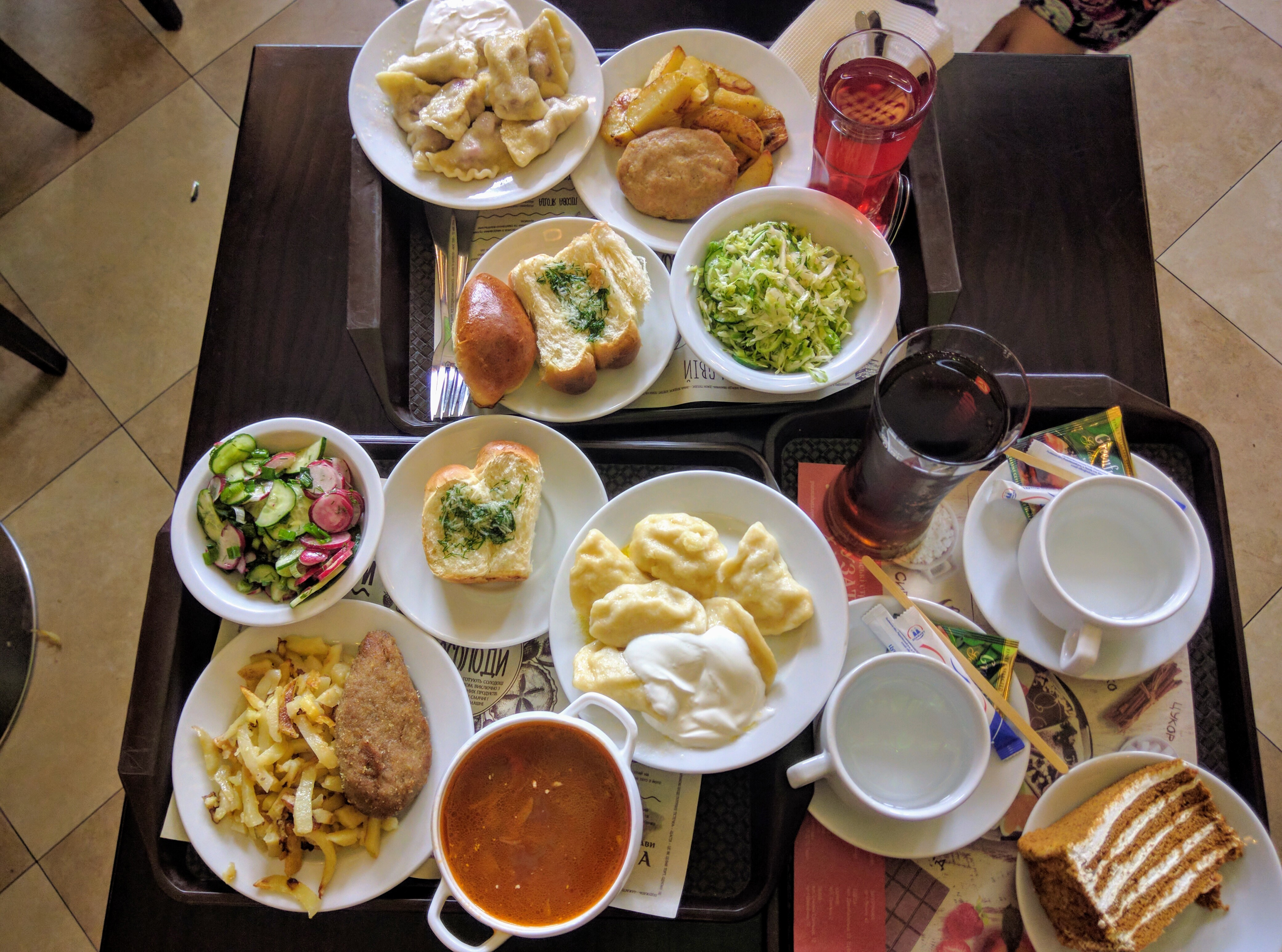 Food from Puzata Hata restaurant in Lviv